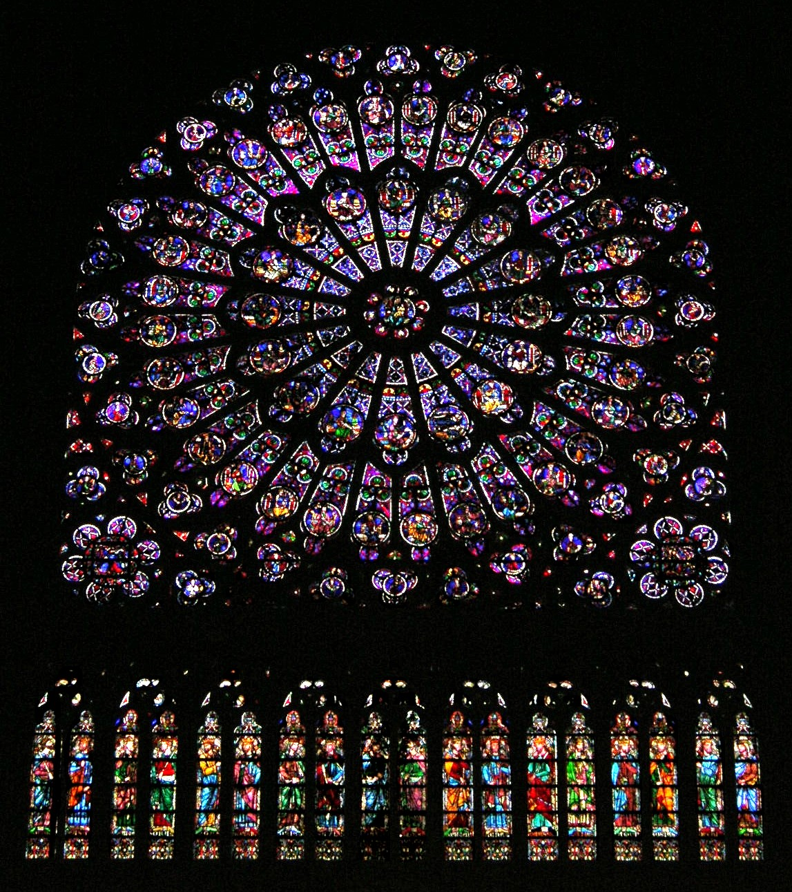 France Paris, Notre Dame, North rose window